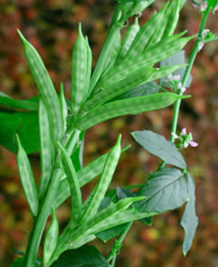 cluster bean,guar plant,Cyamopsis psoralioides;Cyamopsis tetragonolobus,Tamil Nadu